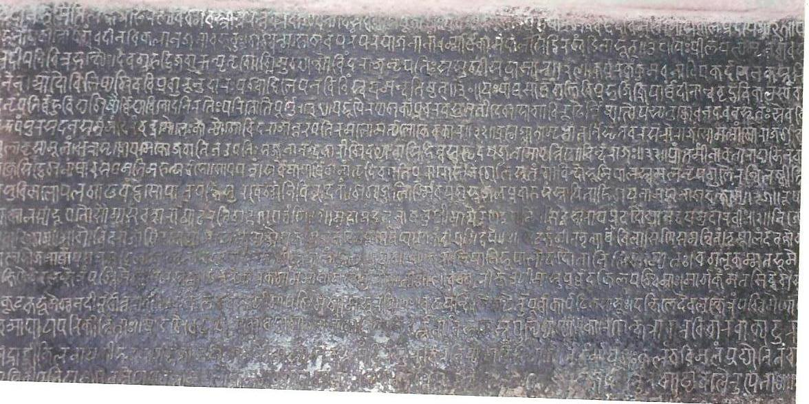 Stone inscription from 11 century temple at Vaghli.